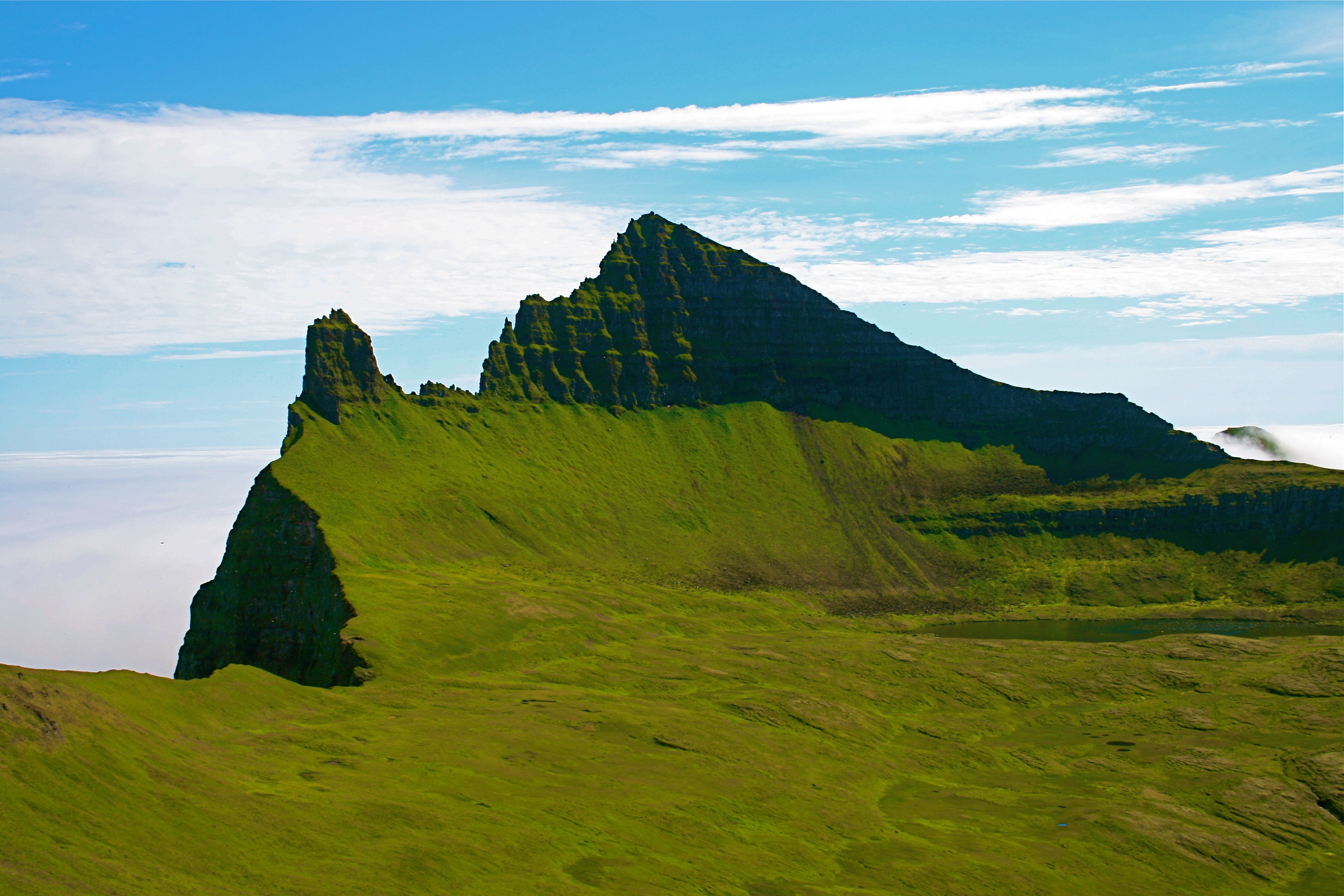 Hornbjarg cliff, in Hornstrandir nature reserve